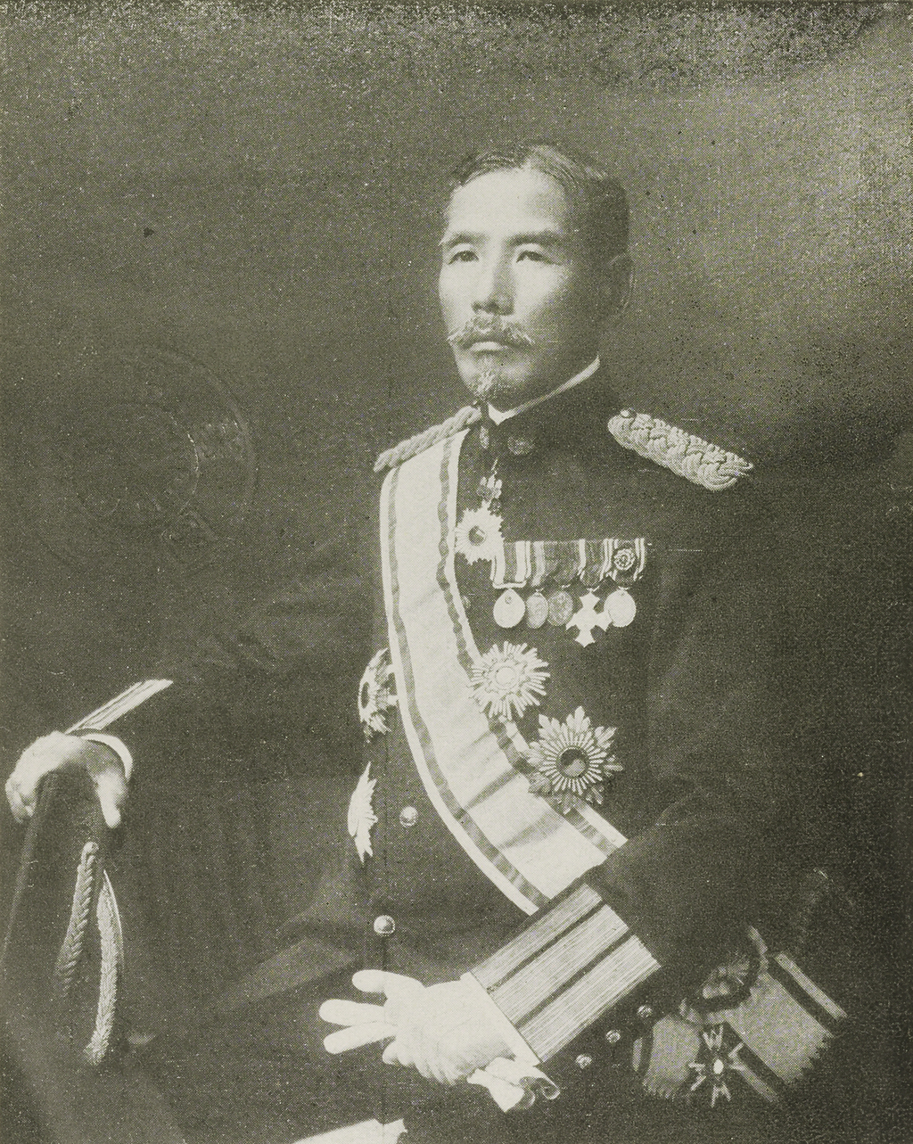 Portrait of Soeda Juichi (添田寿一, 1864 – 1929)